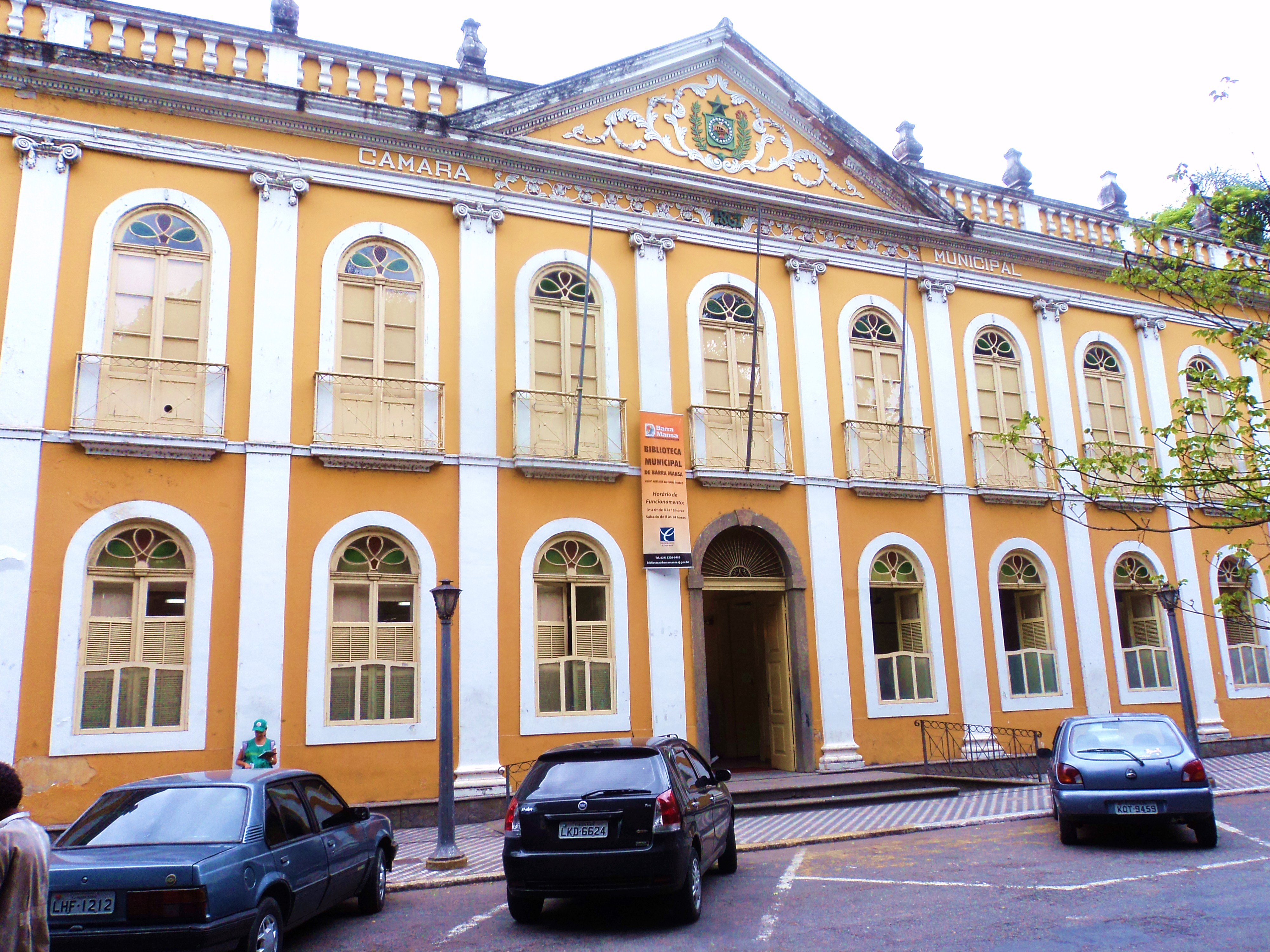 View of library, in Barra Mansa, Rio de Janeiro, Brazil.